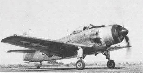 A Douglas XBT2D-1 Skyraider. The XBT2D-1 made its first flight on 11 March 1945. The BT2D was redesignated AD in 1946 and A-1 in 1962. Note the original large spinner which was later deleted.